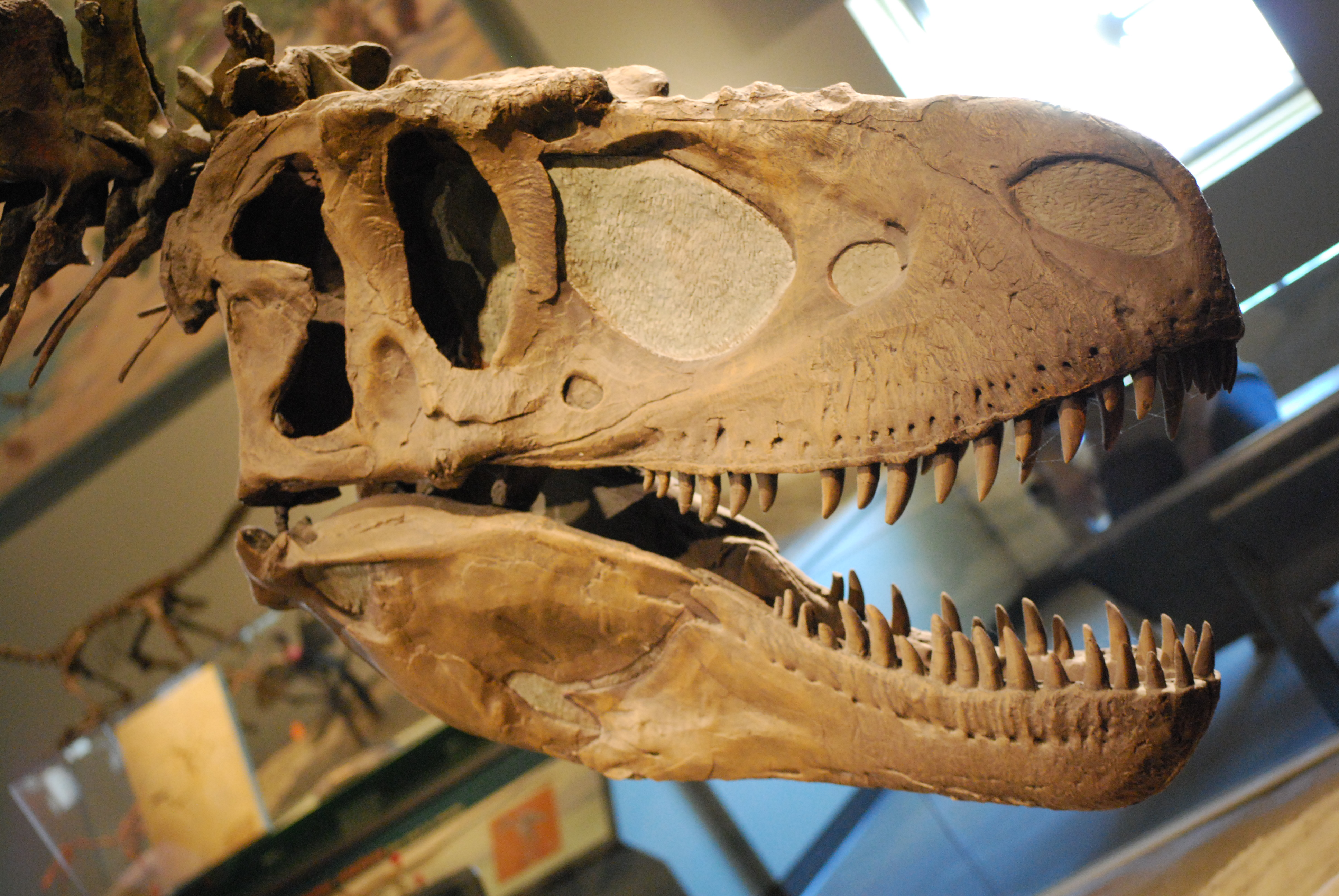 Headshot of the Daspletosaurus mount at the Field Museum of Natural History, Chicago, IL